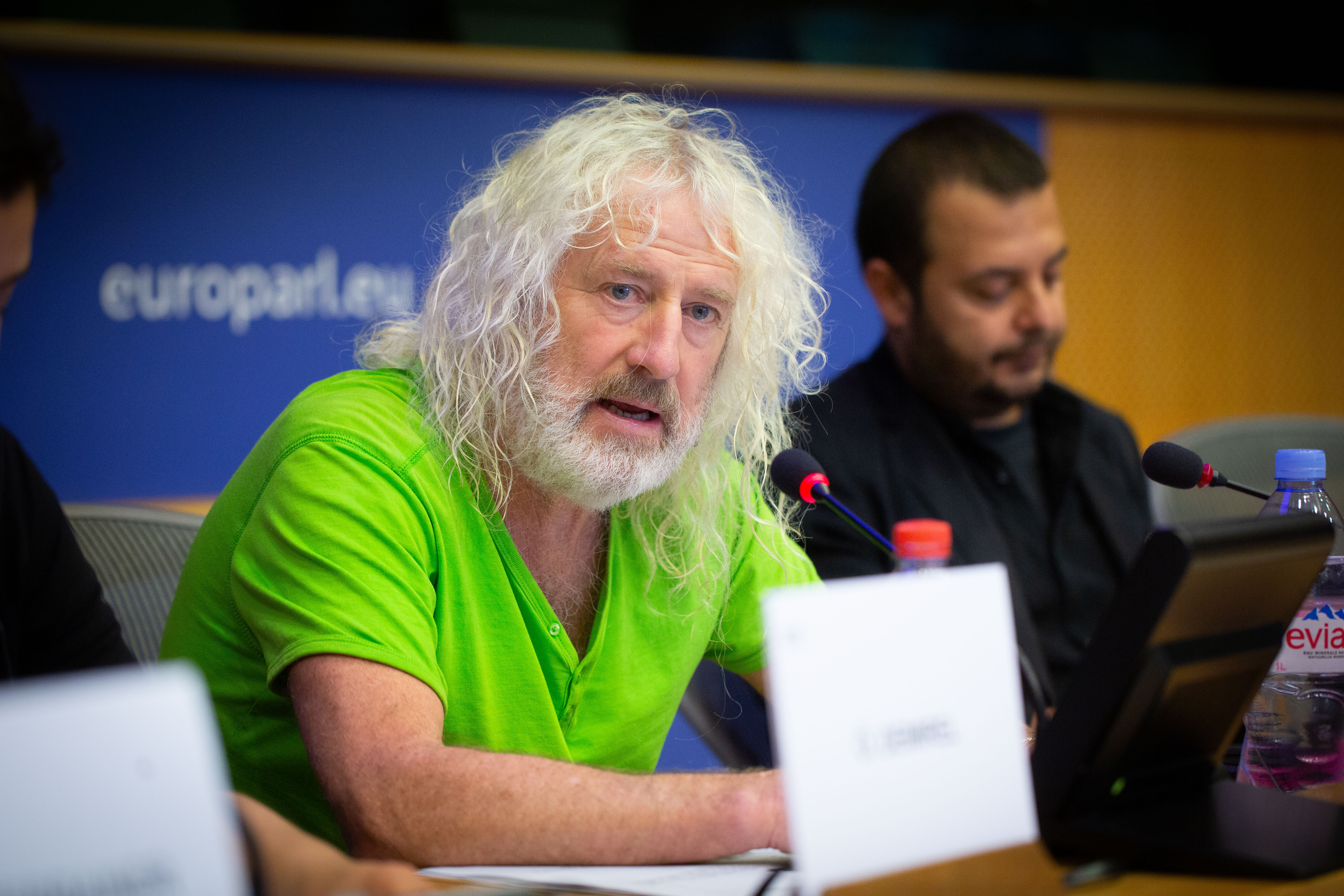 Nuclear Disarmament: Making the world free from nuclear weapons